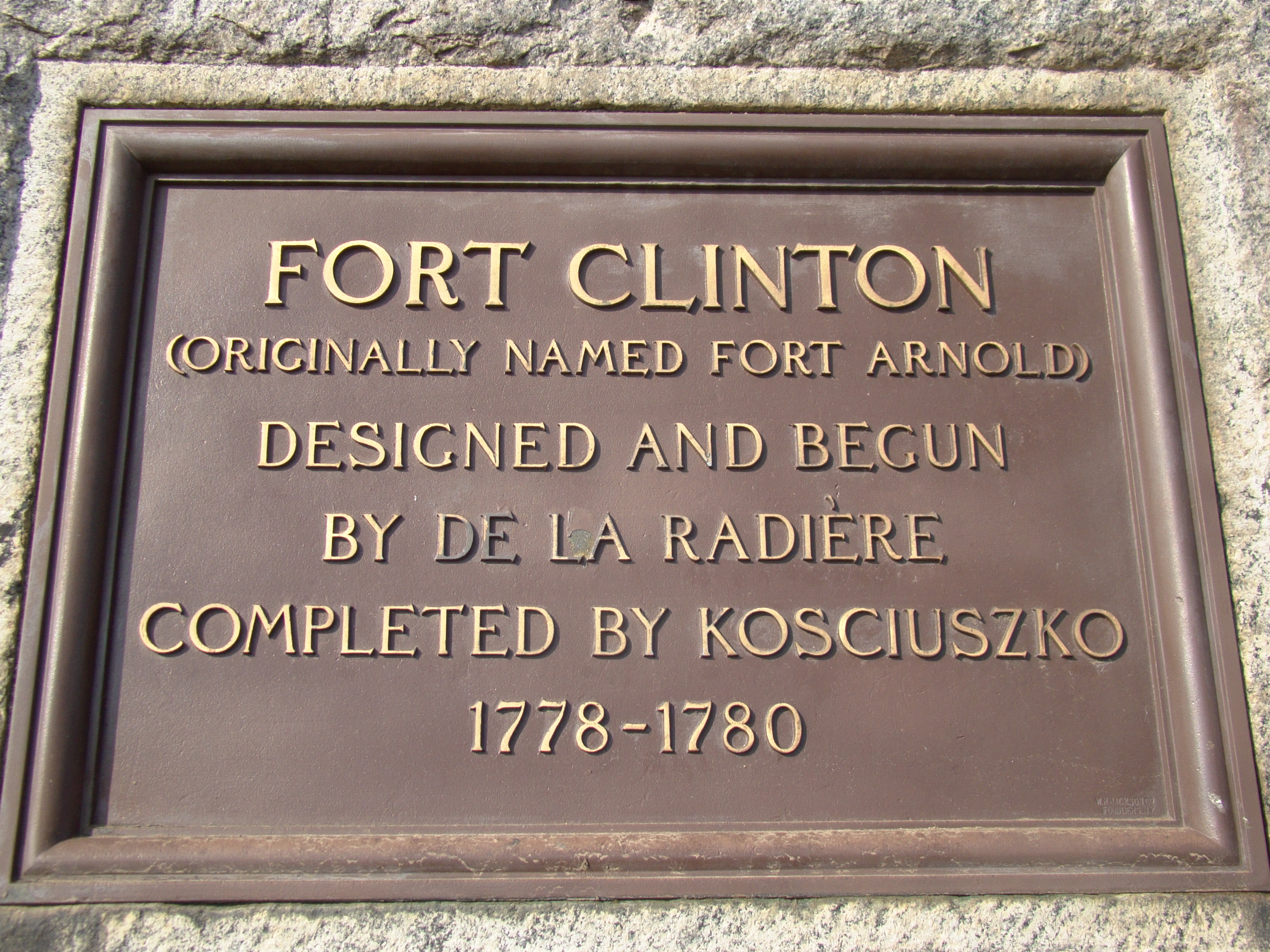 Historical marker of Fort Clinton at West Point, NY